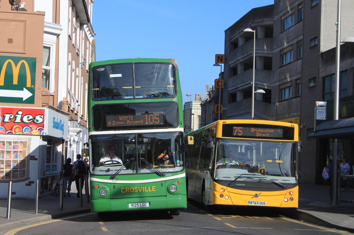 Regent Street in Weston-super-Mare is the meeting point for buses on all routes through the town centre. Crosville Motor Services' 400 (an ALX400 registered V125LGC) is on the way across town to Worle but has to squeeze past Webberbus BT63UUS, an MCV Evolution heading south to Bridgwater.